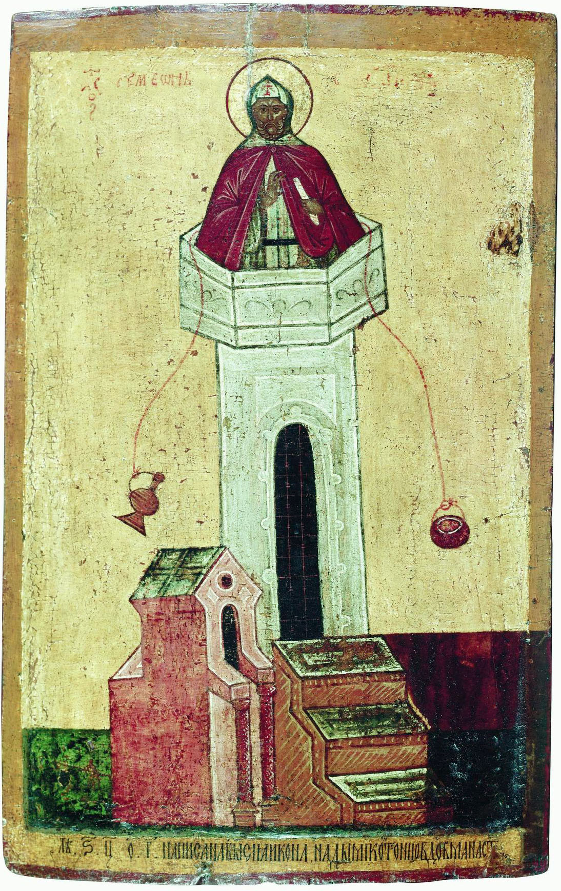 Simeon Stylites